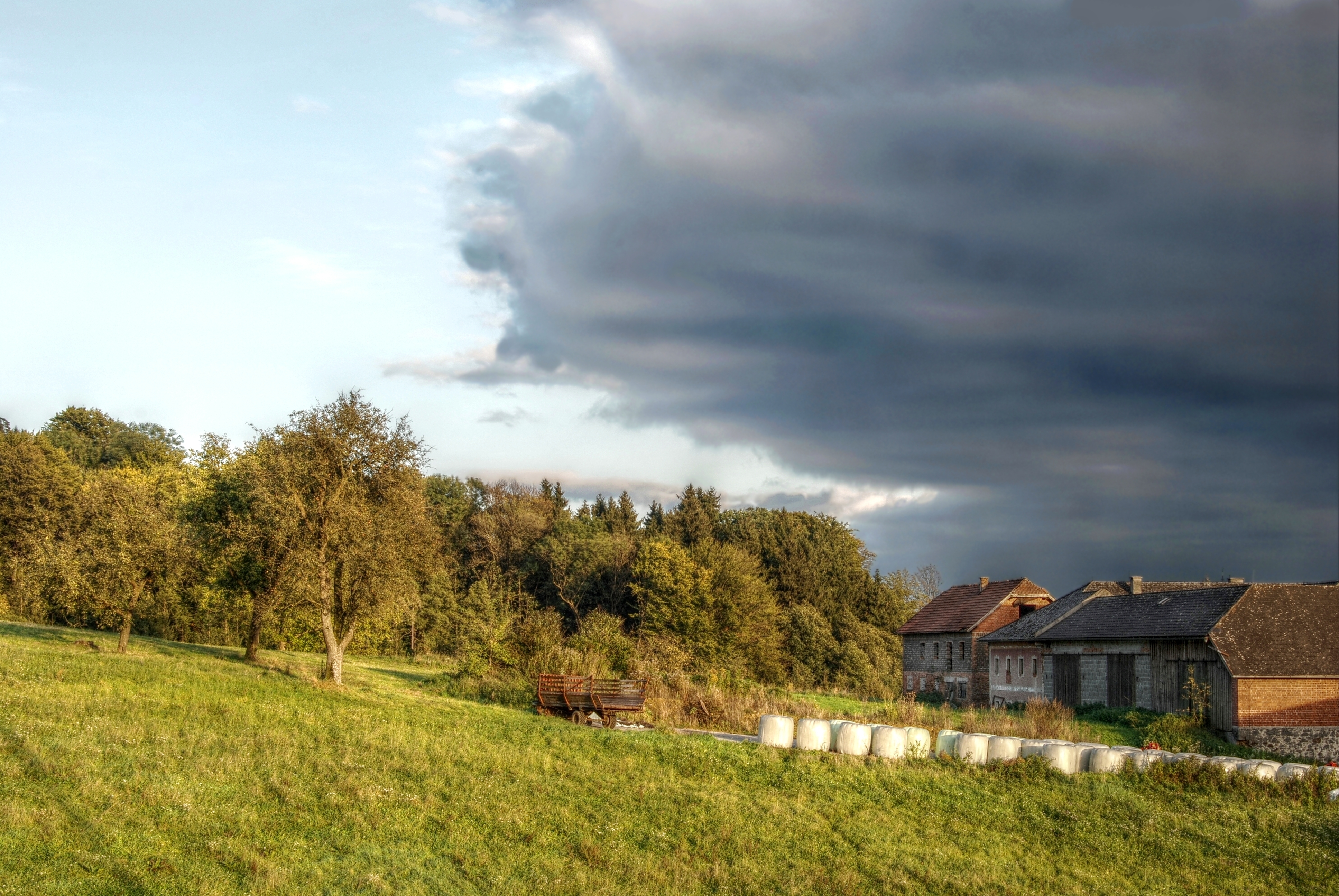 Landscape of Puchenau. Tone-mapped HDR of three images, created with Qtpfsgui.